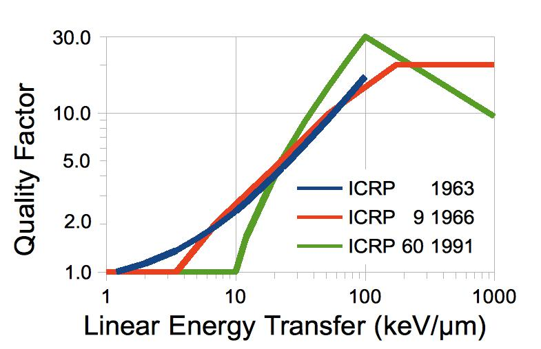 Graph of quality factor (QF) versus dose-averaged unrestricted linear energy transfer (LET) of ionizing radiation. The quality factor is meant to approximate the relative biological effectiveness in humans. QF's have since been replaced by radiation weighting factors that are independent of LET.